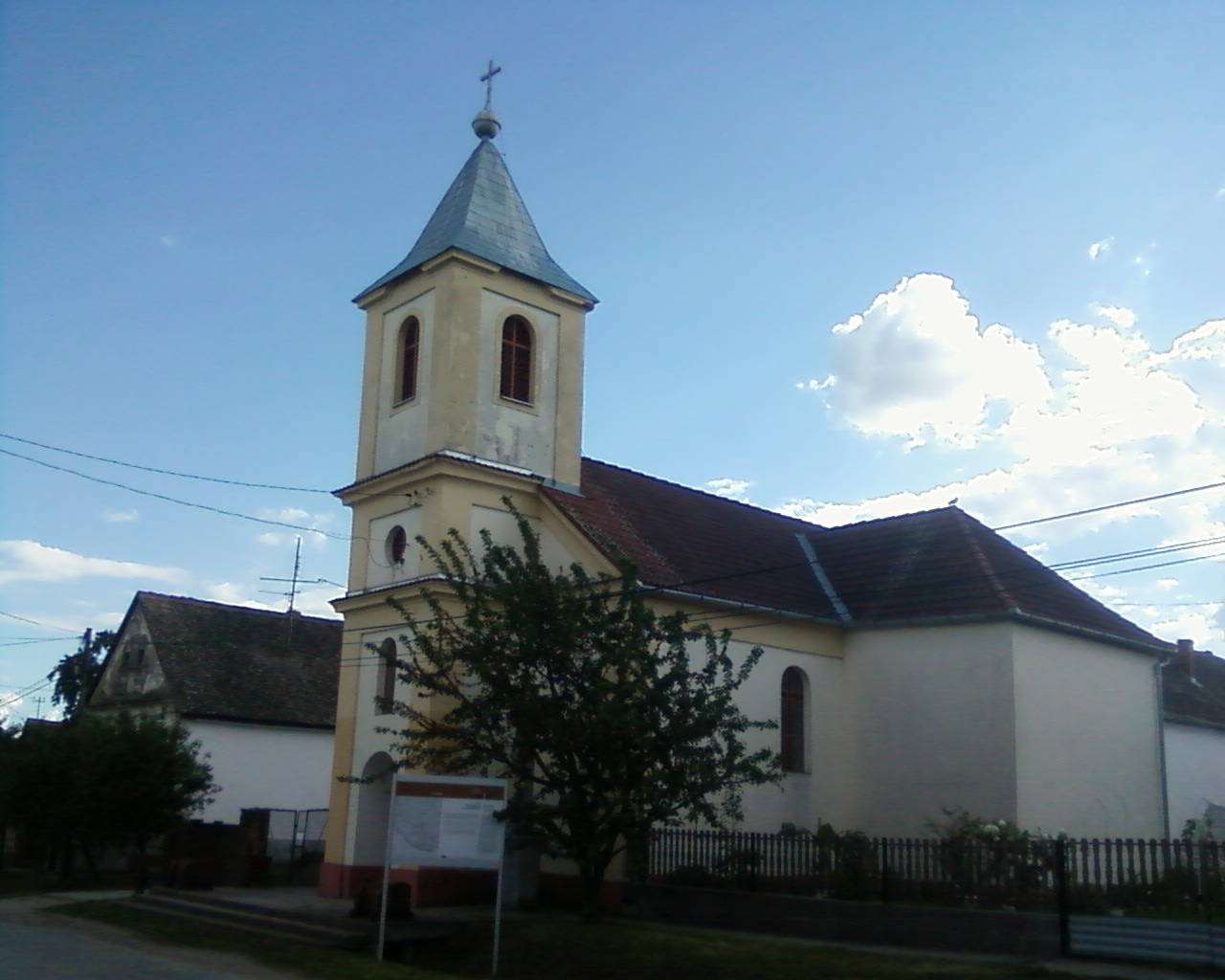 Roman catholic church in Illocska, Hungary